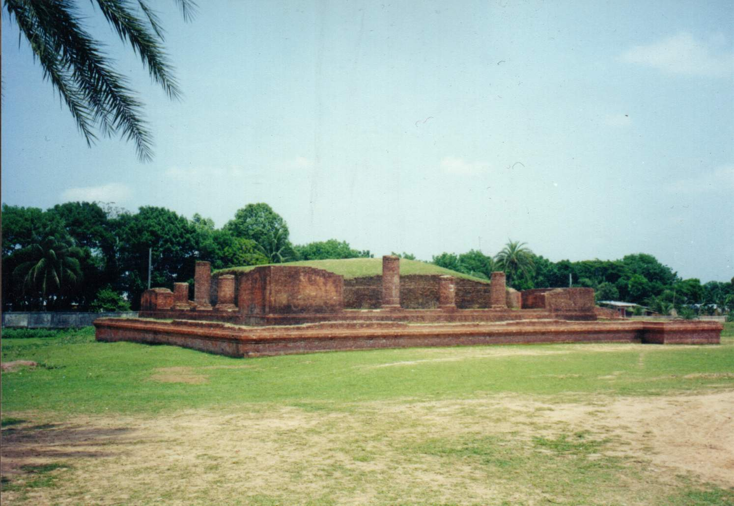 Ruins of Temple outside the Bihar Compound, Shalban Bihar, Comilla, Bangladesh. This structure is supposed to have been constructed at a later period than the monastery itself. The use of sun-dried bricks can be clearly seen, because Bangladesh is a country deprived of stone quarries.